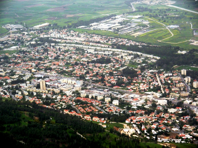 View of Qiryat Shemona from Menara